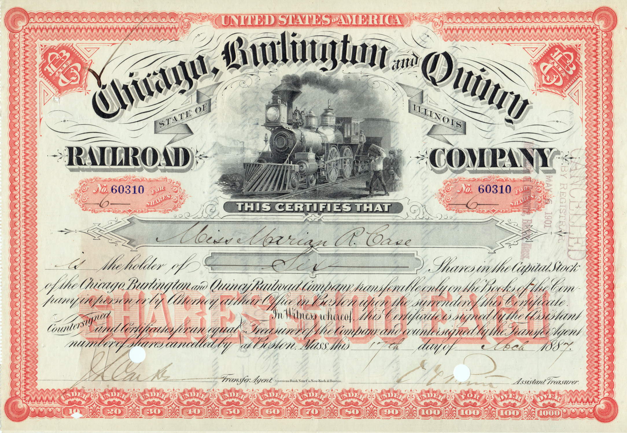 Chicago, Burlington & Quincy Railroad Stock Certificate 1887